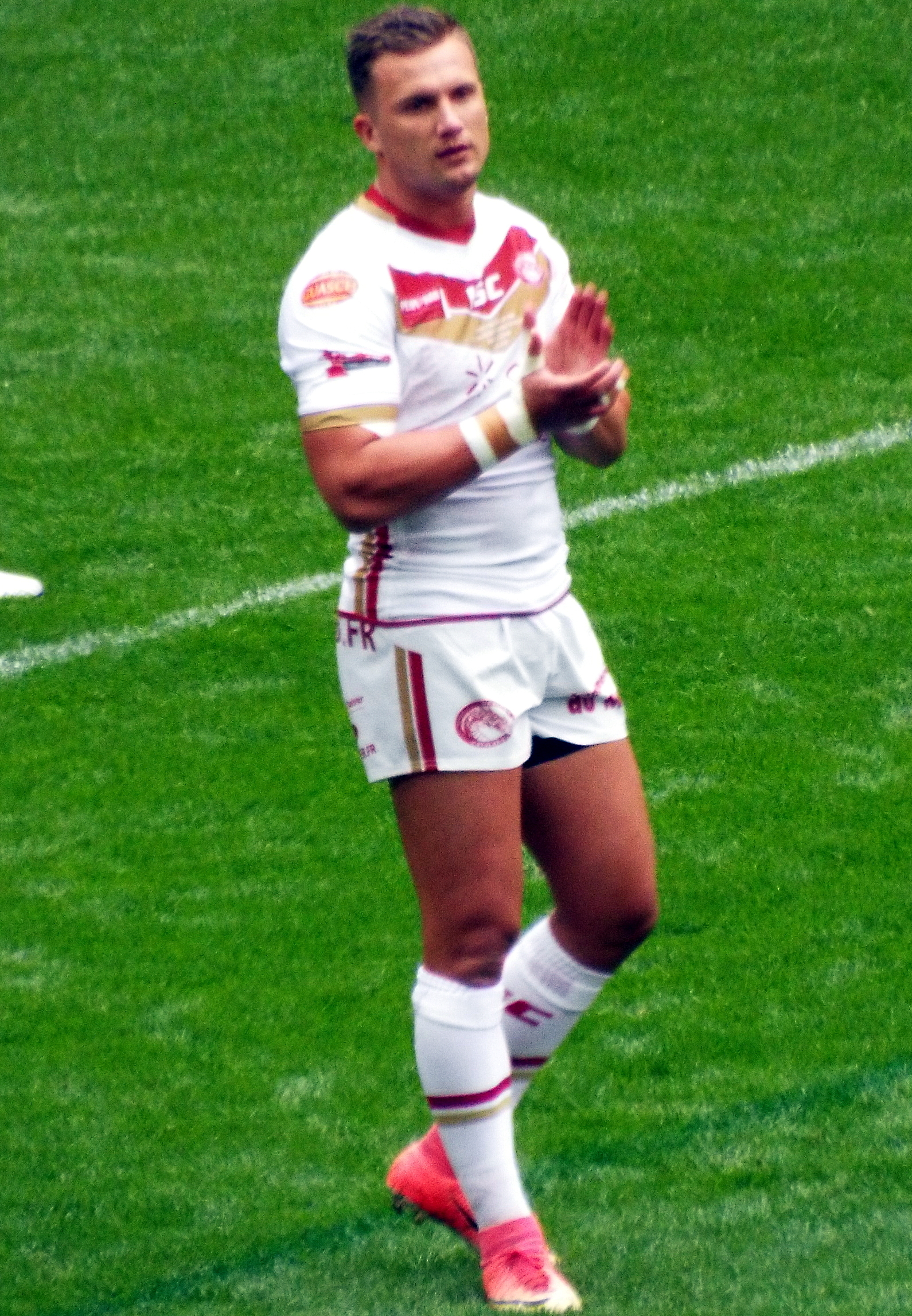 Josh Drinkwater